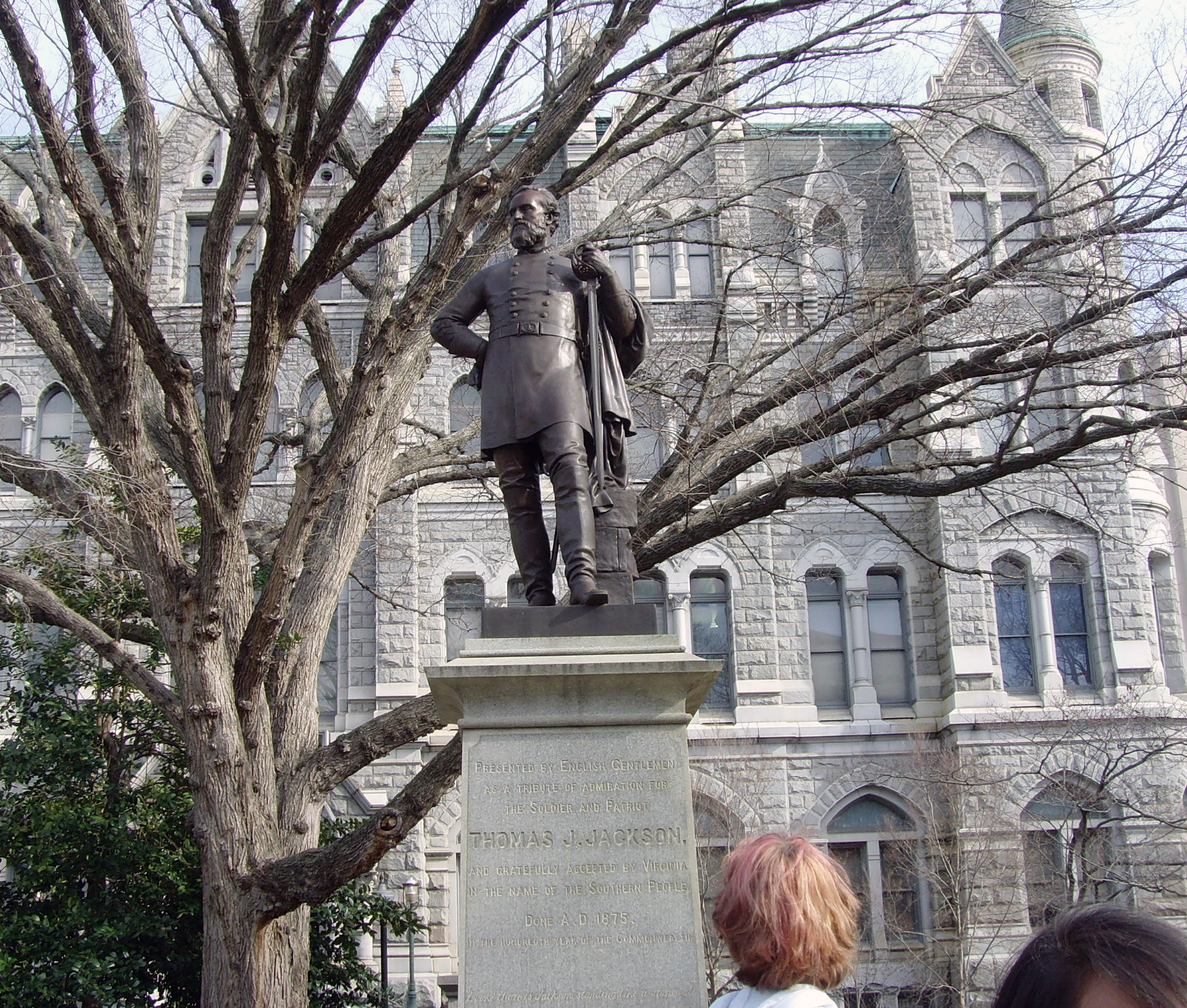 Picture of the Thomas J. Jackson statue in Richmond, VA.